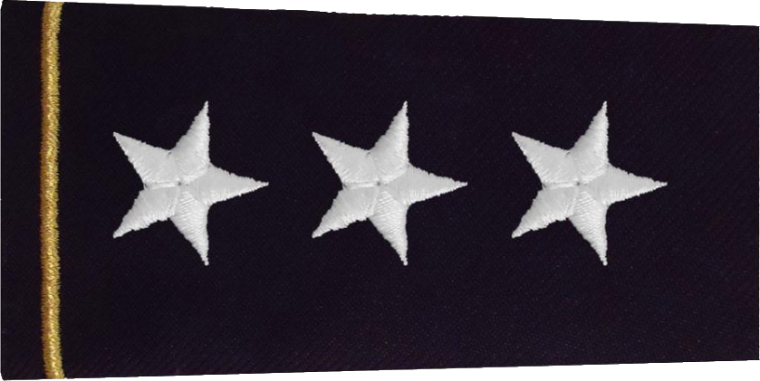 US Army rank